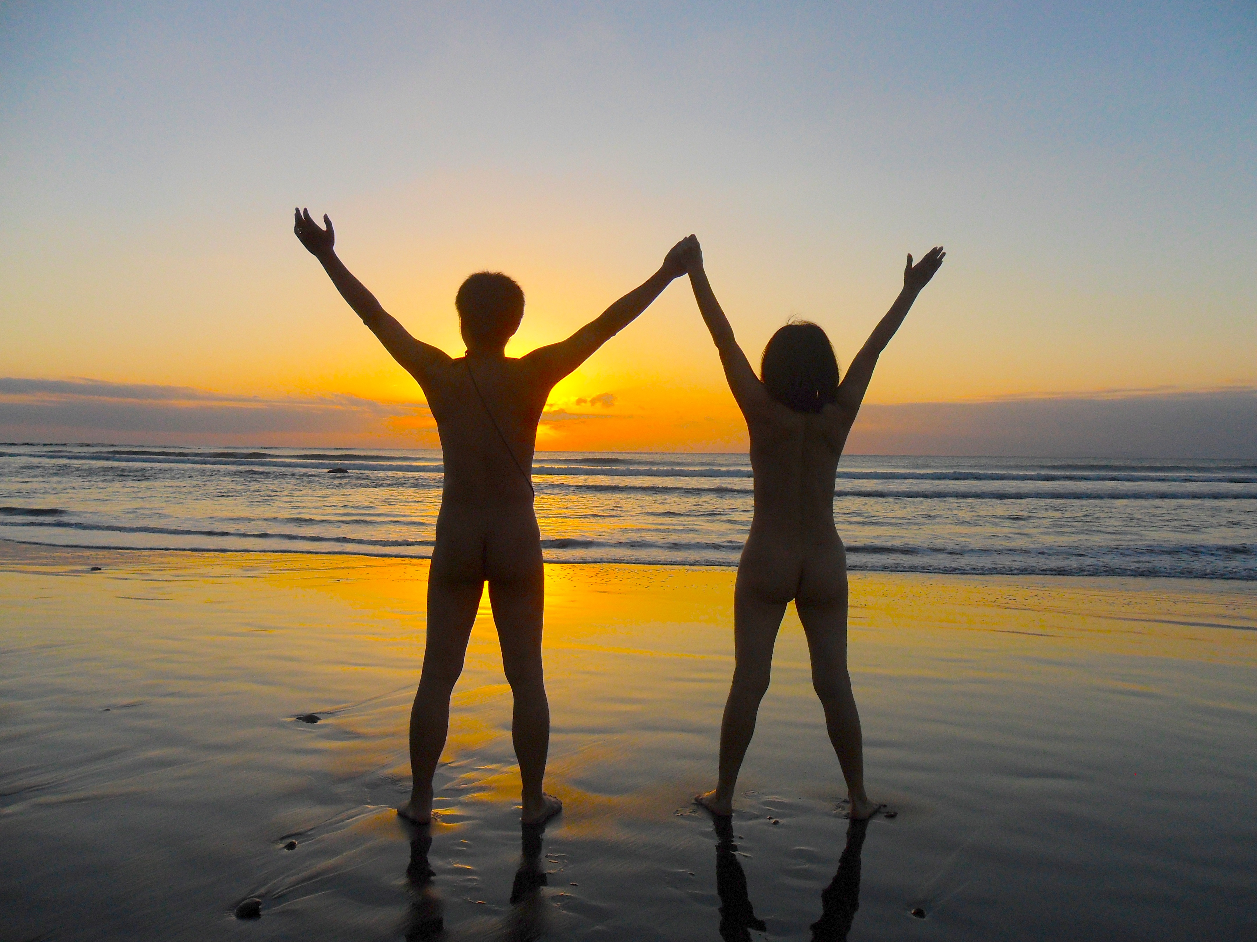 Beautiful sunrise and beach from Taitung beach in Taitung County. Naturists worship the nature.